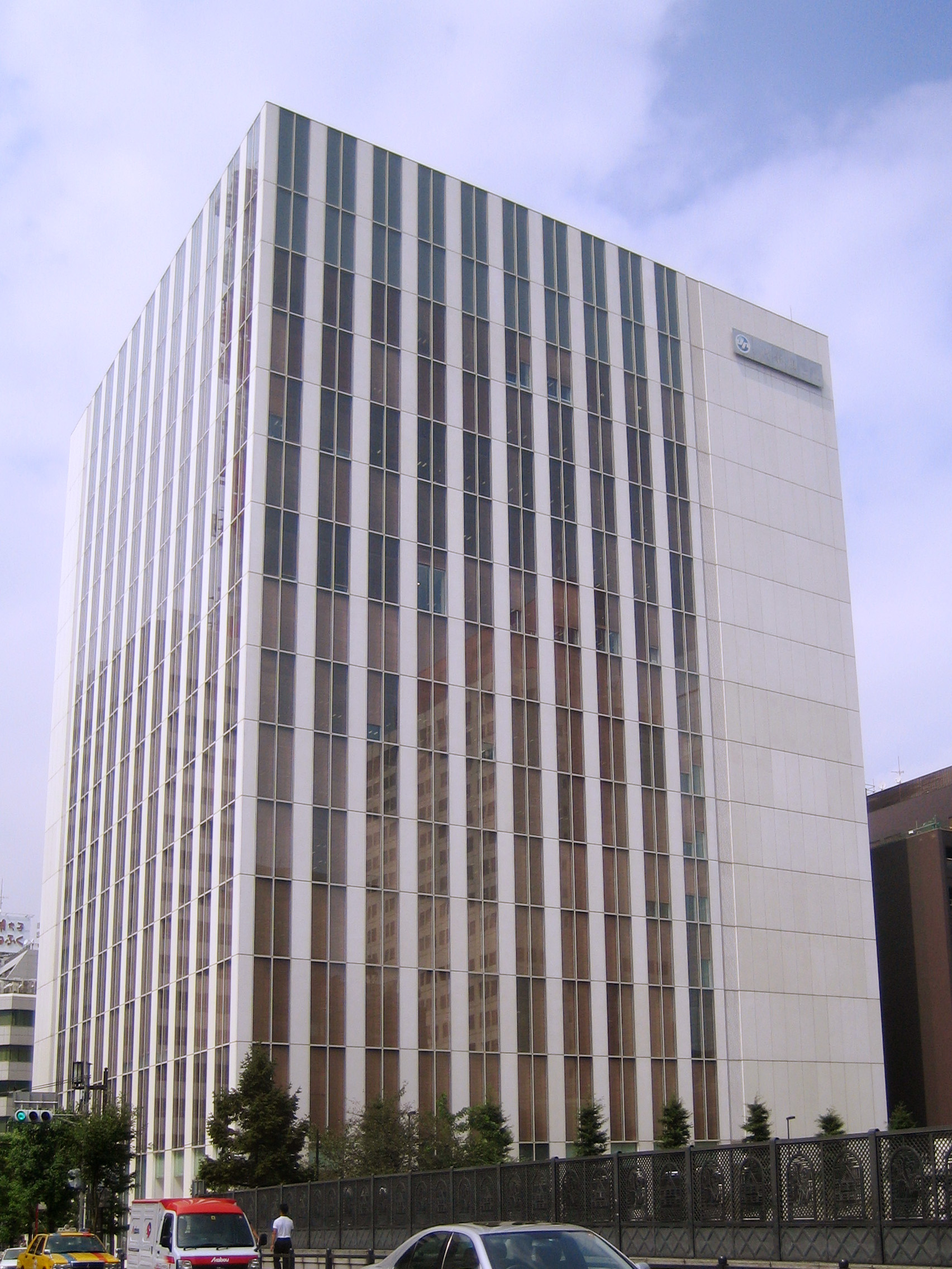 Headquarters of Jiji Press (時事通信社), at Ginza, Chuo, Tokyo, Japan - Head office of the Japan Economic Foundation (JEF)